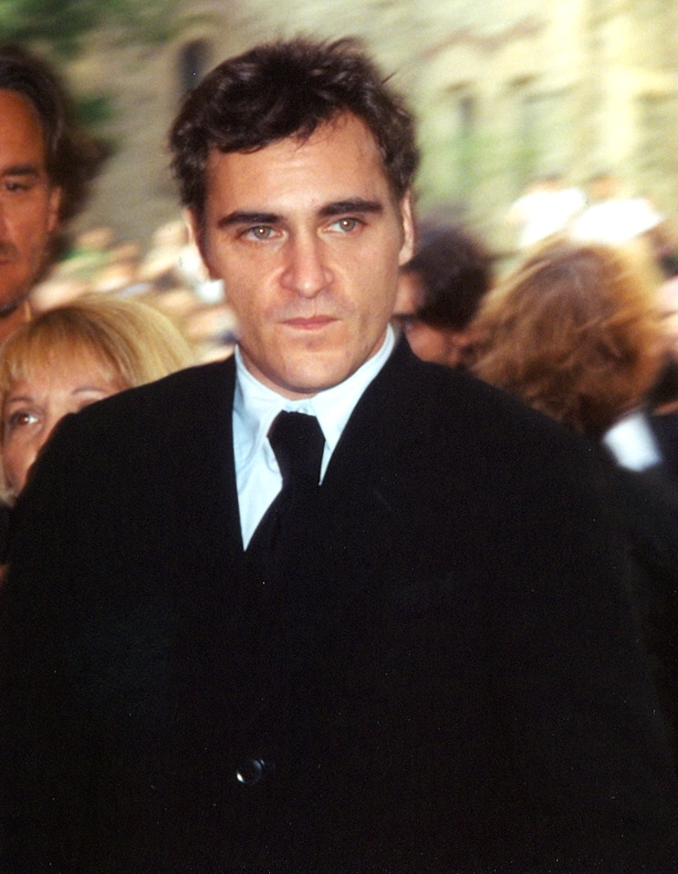 Photo of Joaquin Phoenix at the Toronto Film Festival.